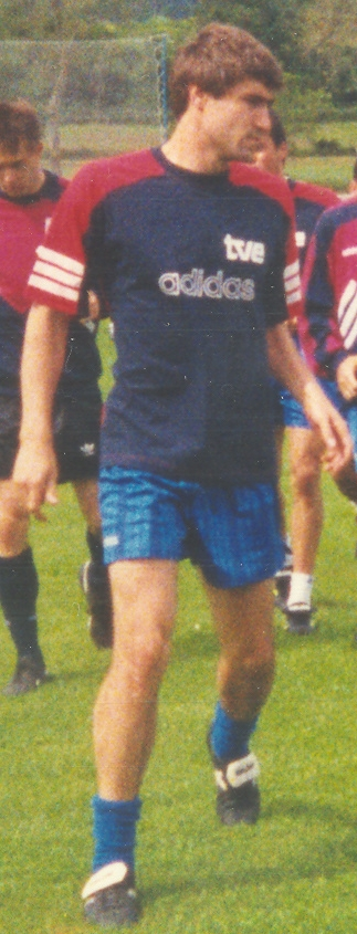 Ex-footballer Julio Salinas during a training session.